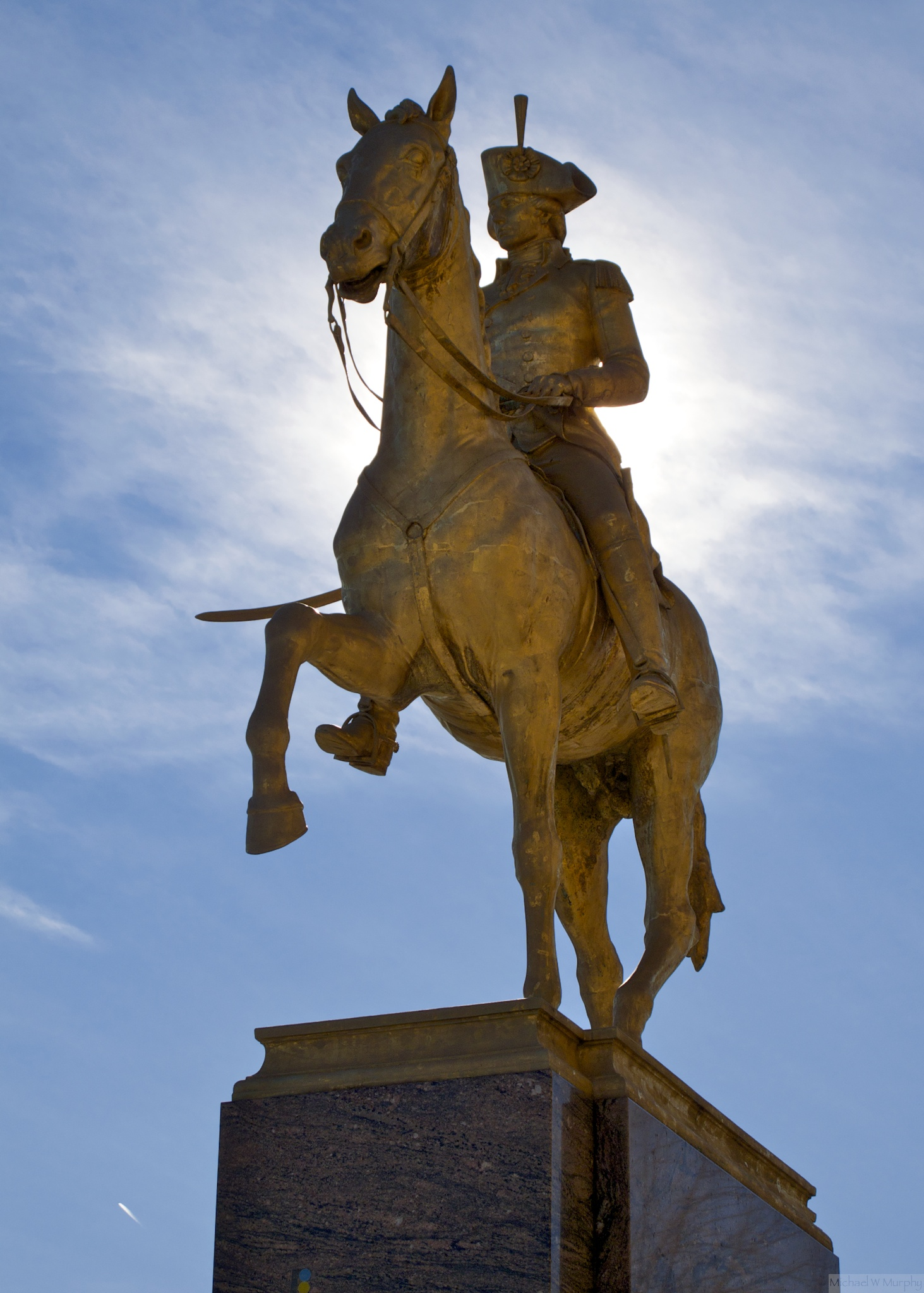 General Anthony Wayne Located neat the South East corner of the Philadelphia Museum of Art